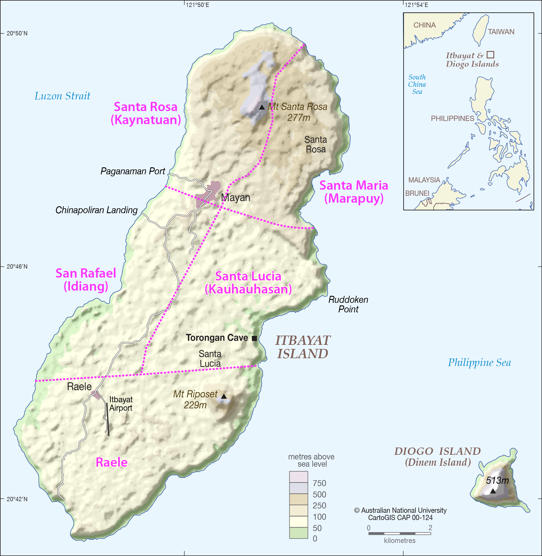 map of Itbayan Island (including Diogo Island), Batan Islands, northern Philippines